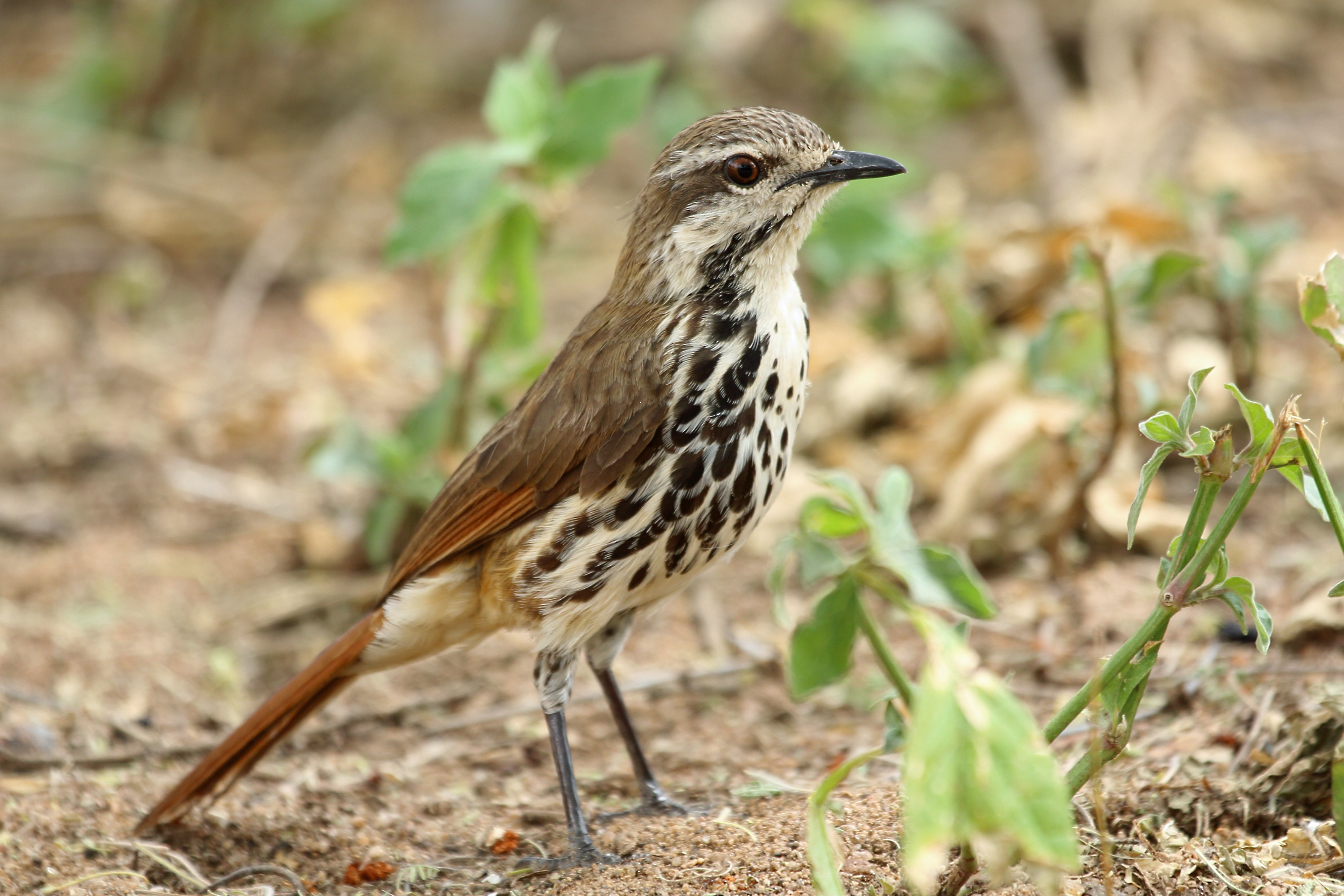 Spotted Morning-Thrush, Lake Manyara, Tanzania